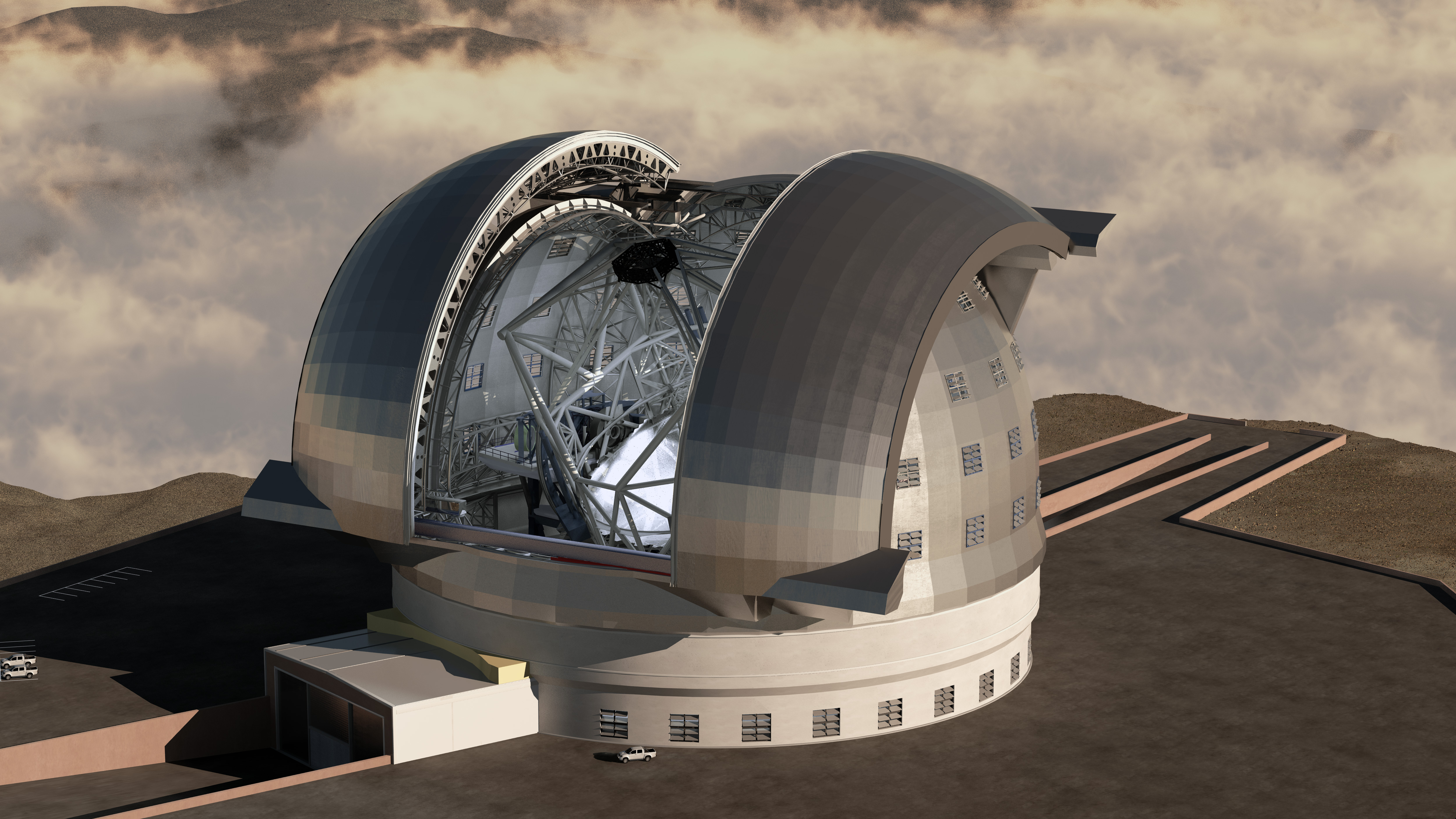 A new architectural concept drawing of ESO’s planned European Extremely Large Telescope (E-ELT) shows the telescope at work, with its dome open and its record-setting 42-metre primary mirror pointed to the sky. In this illustration, clouds float over the valley overlooked by the E-ELT’s summit. The comparatively tiny pickup truck parked at the base of the E-ELT helps to give a sense of the scale of this massive telescope. The E-ELT dome will be similar in size to a football stadium, with a diameter at its base of over 100 m and a height of over 80 m. Scheduled to begin operations in 2018, the E-ELT will help track down Earth-like planets around other stars in the “habitable zones” where life could exist — one of the Holy Grails of modern observational astronomy. The E-ELT will also make fundamental contributions to cosmology by measuring the properties of the first stars and galaxies and probing the nature of dark matter and dark energy.